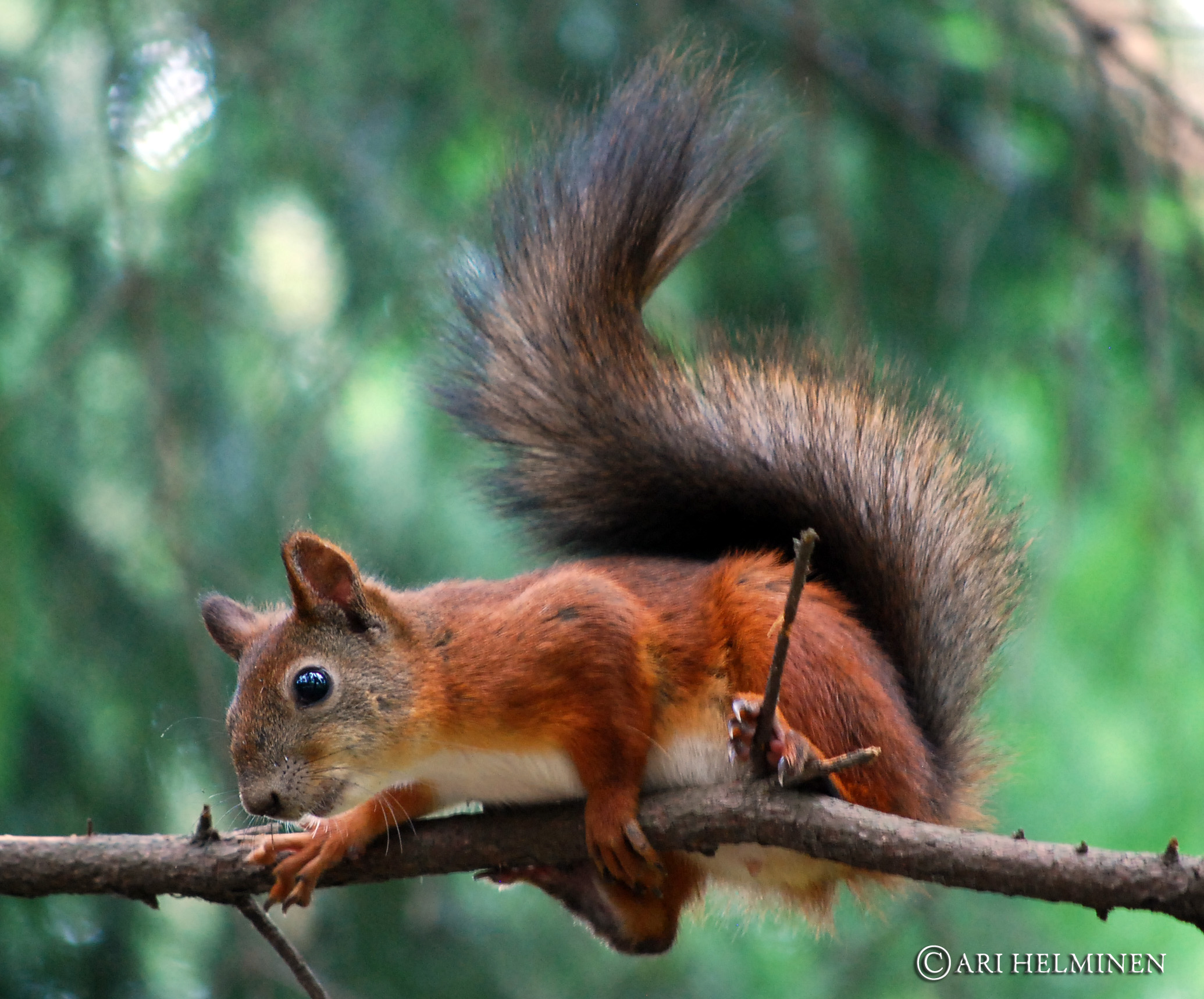 Taken in Helsinki, Finland.